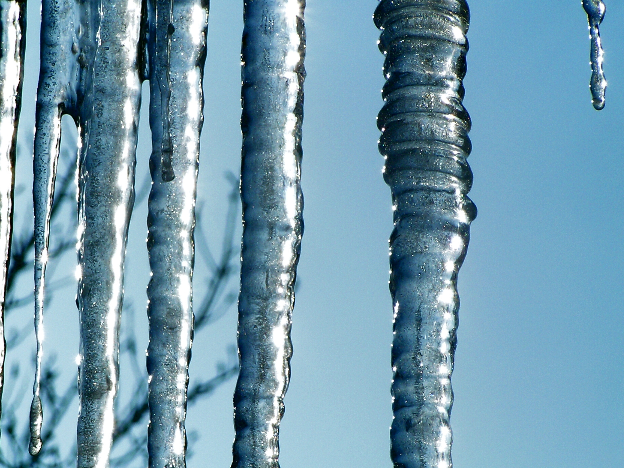 Icicles on my roof